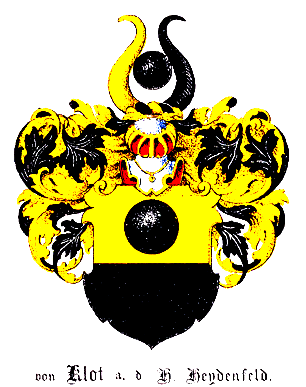 Coat of Arms of Klot family